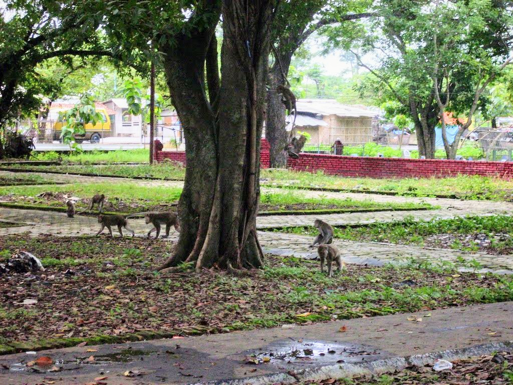 Banjarsari Jatibarang